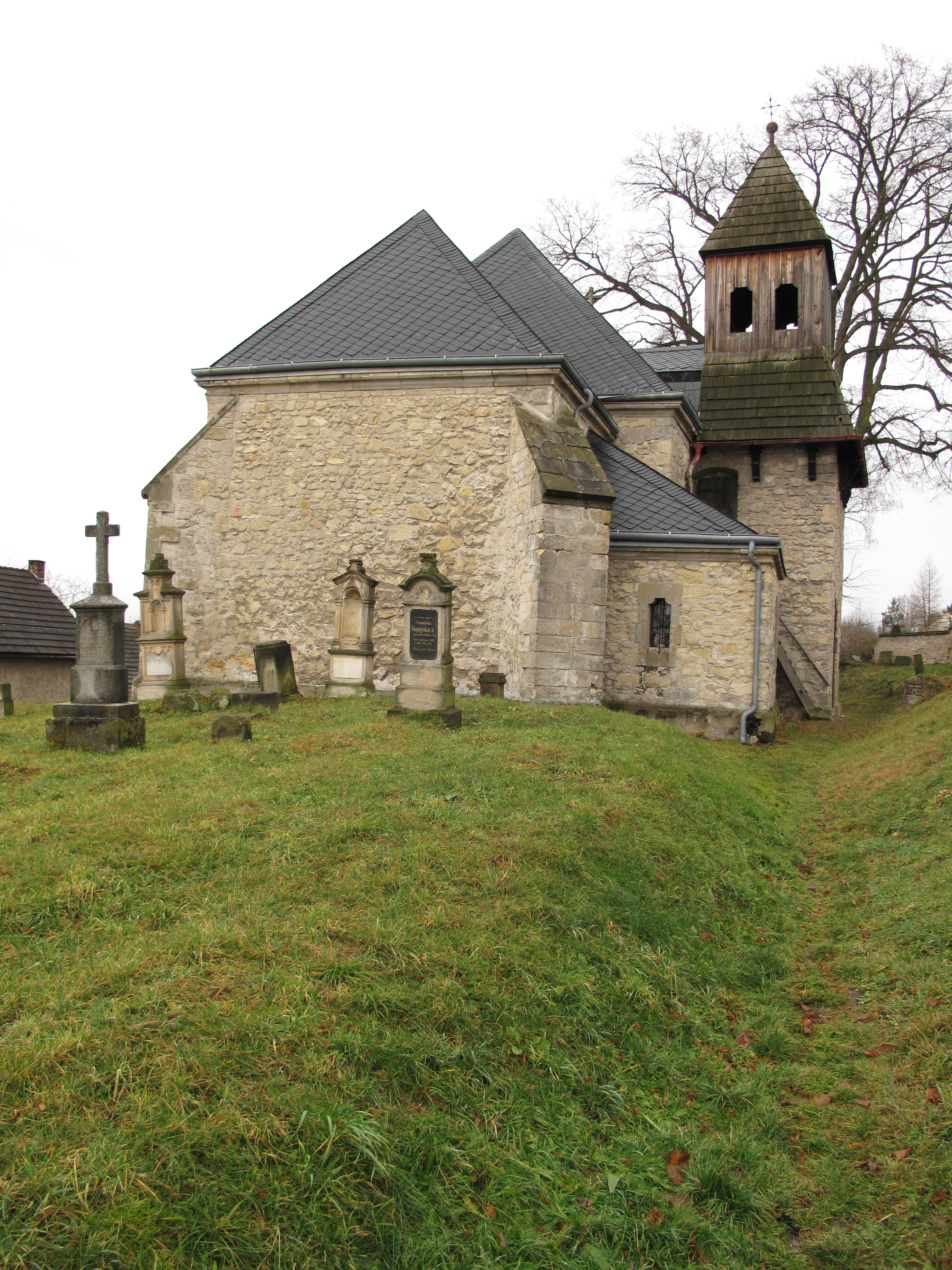 Church of the Beheading of St. John the Baptist in Krpy village, Mladá Boleslav District, Czech Republic.